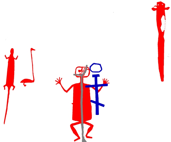 Petroglyphs from site Peri Nos fron Lake Onega in Carelia Russia